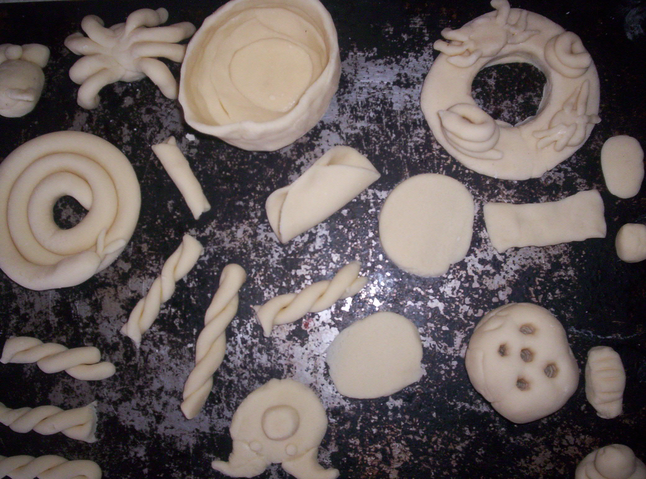 Child activity. Salt dough before baking.